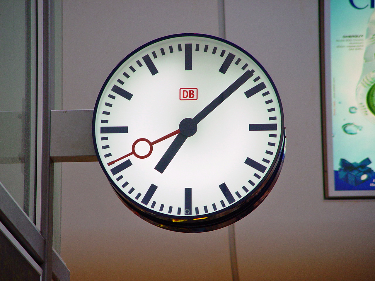 A typical Deutsche Bahn railway station clock